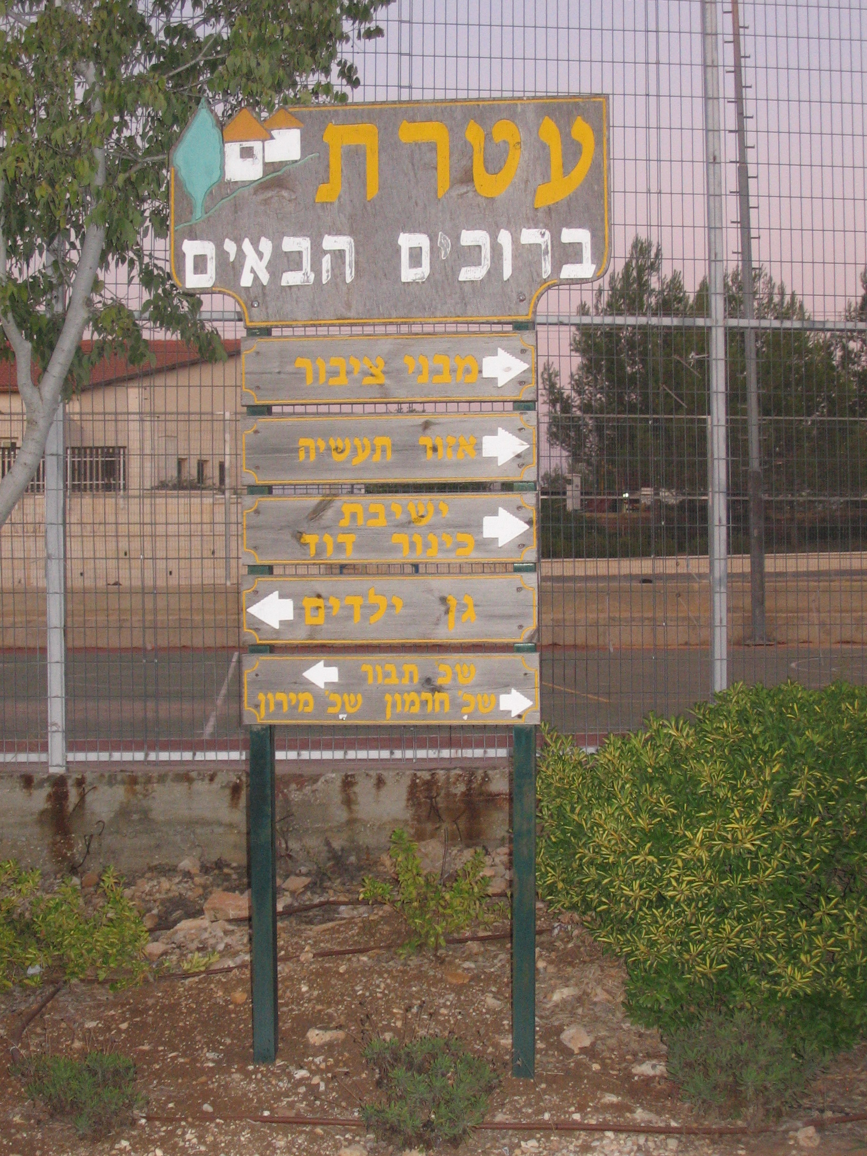 Щит с указателями в Атерет